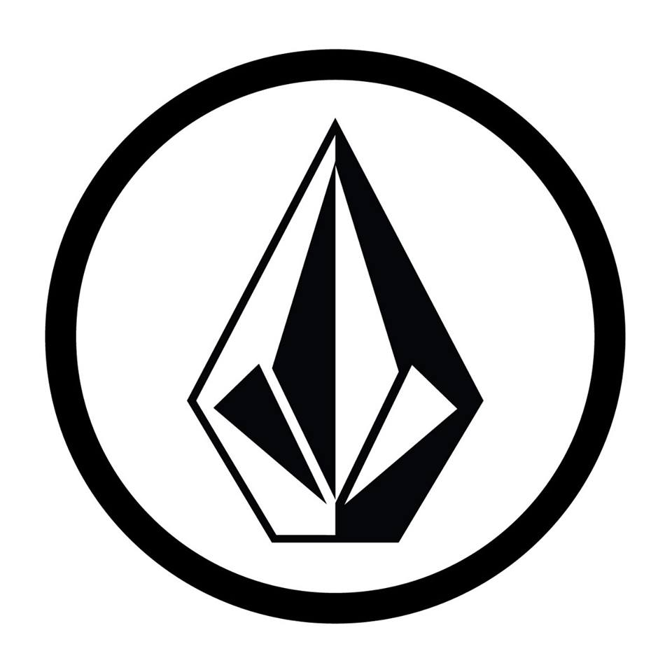 Volcom Stone